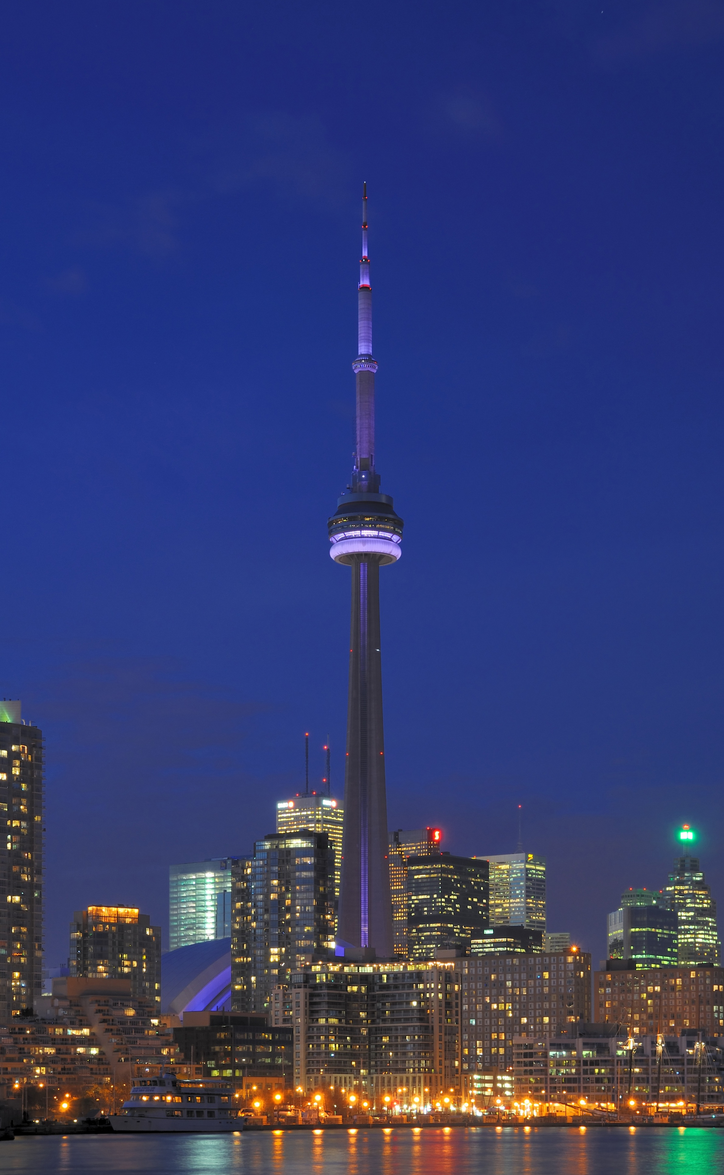 Toronto: CN Tower illuminated at night. Beside the Tower you can see (from left to right) Walter Carsen Centre, Rogers Centre, First Canadian Place, Scotia Plaza, Brookfield Place